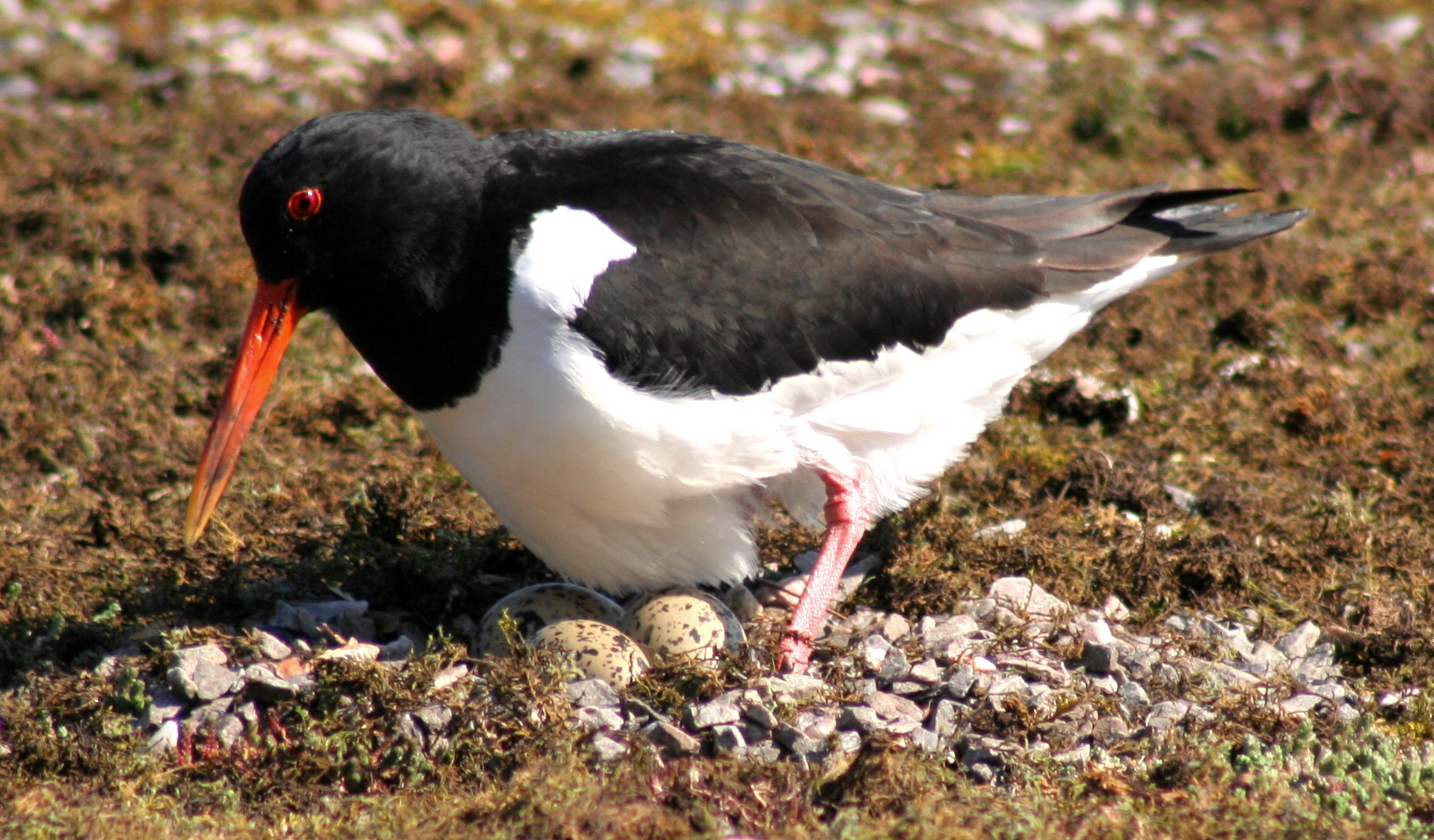 A Eurasian Oystercatcher on eggs and nest (also known as the Common Pied Oystercatcher) on the roof of Royal Golf Hotel, Dornoch, Scotland.